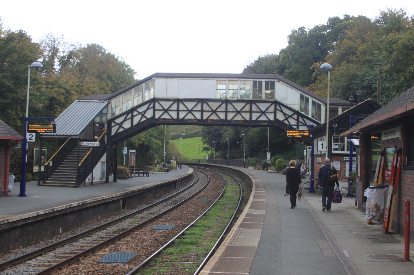 At Bodmin Parkway station in Cornwall, looking up the line towards Plymouth.